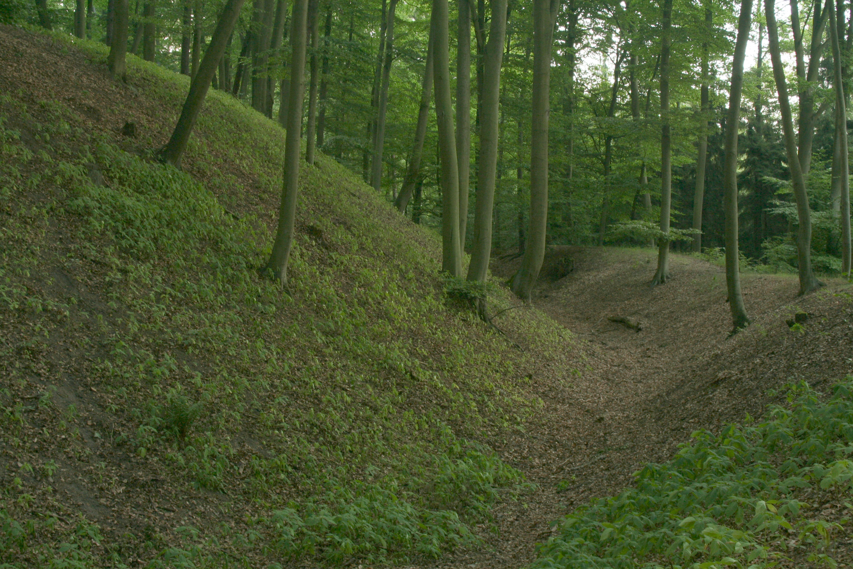 Defensive earthen wall of Niesulice gord, at Lake Niesłysz, Lubuskie Voivodship